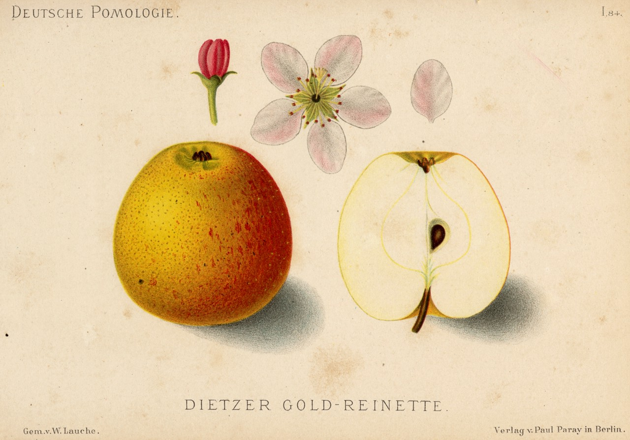 Illustration 84 from Deutsche Pomologie - Aepfel Apple cultivar shown: Dietzer Goldreinette